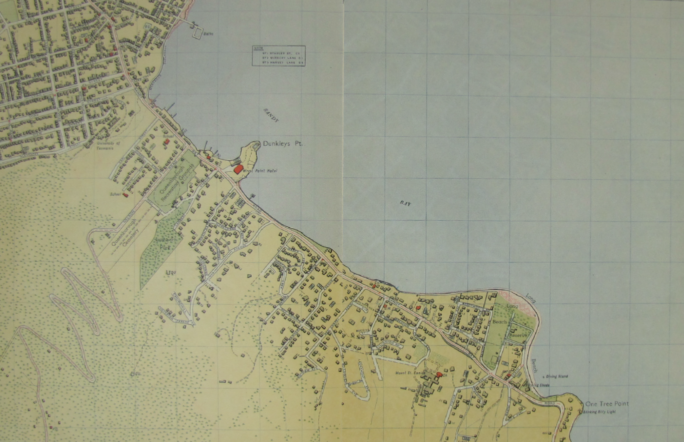 Map 2-3 of Hobart aerial survey map (Sandy Bay)